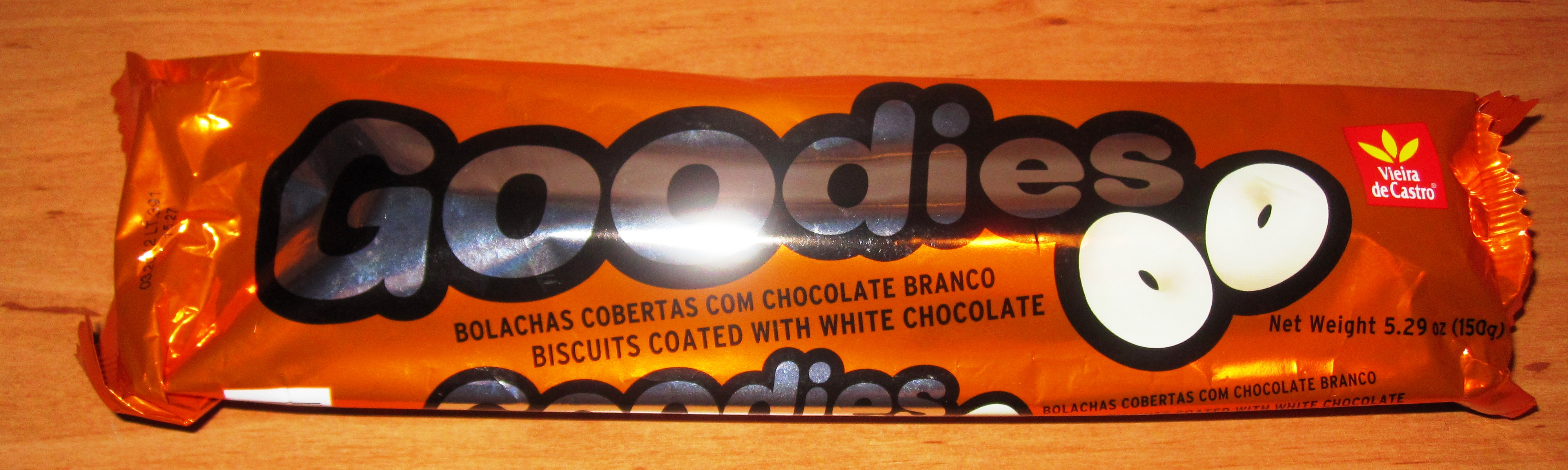 White chocolate biscuits by the portuguese brand Vieira.